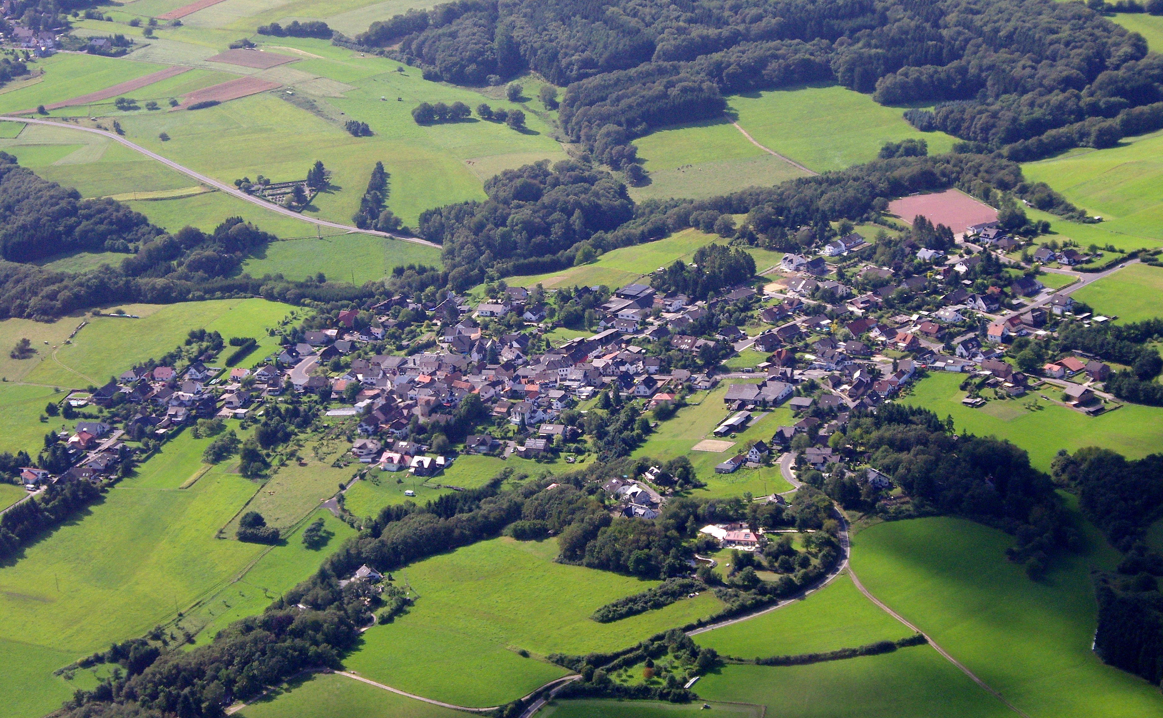 Aerial view of Berg, Ahrweiler as seen from the east